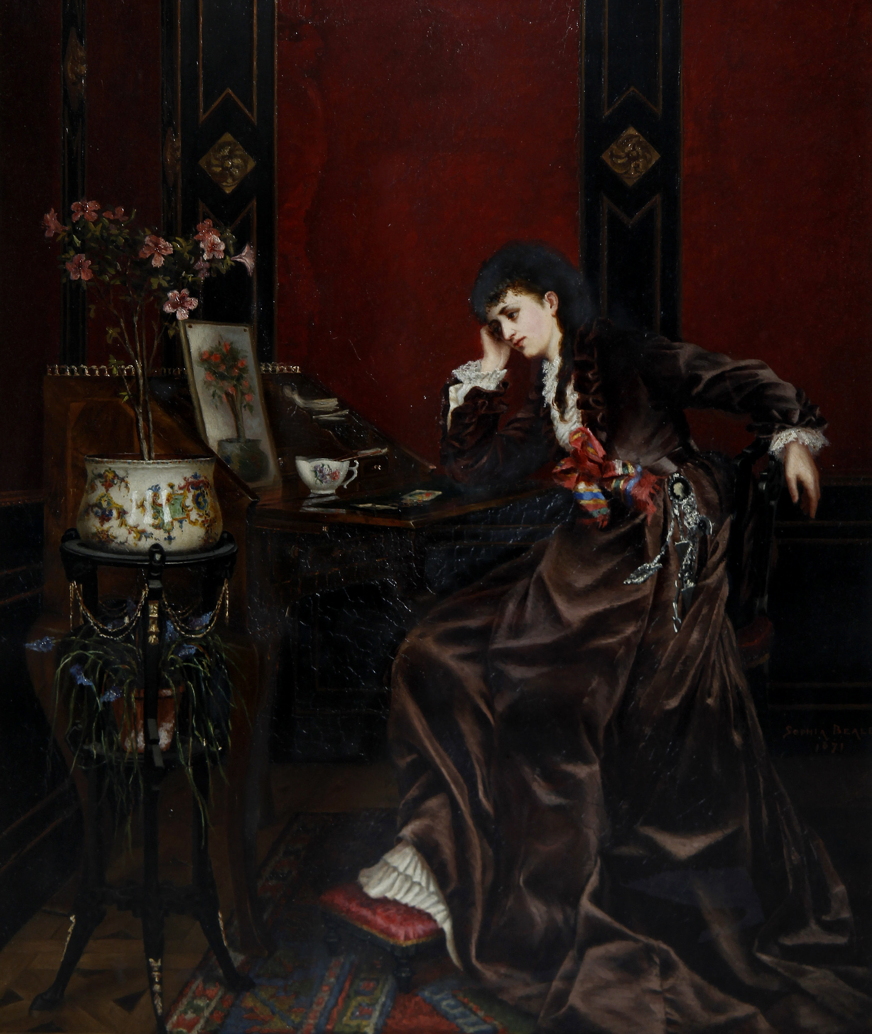 The pleasures of art. Signed and dated Sophia Beale/1871. Oil on board, 52 x 42 cm